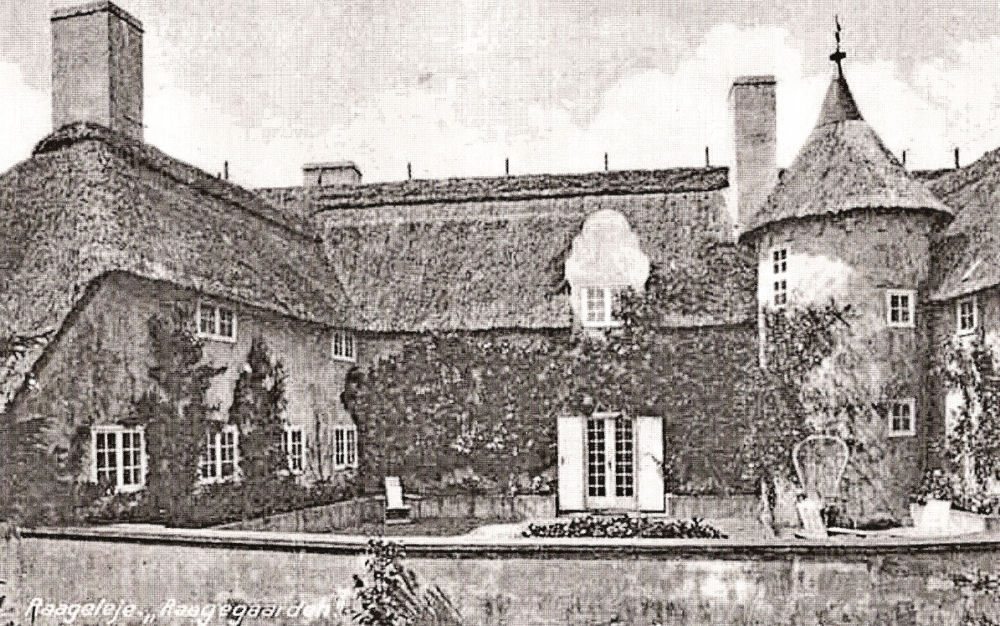 Rågegården in Rågeleje, Denmark